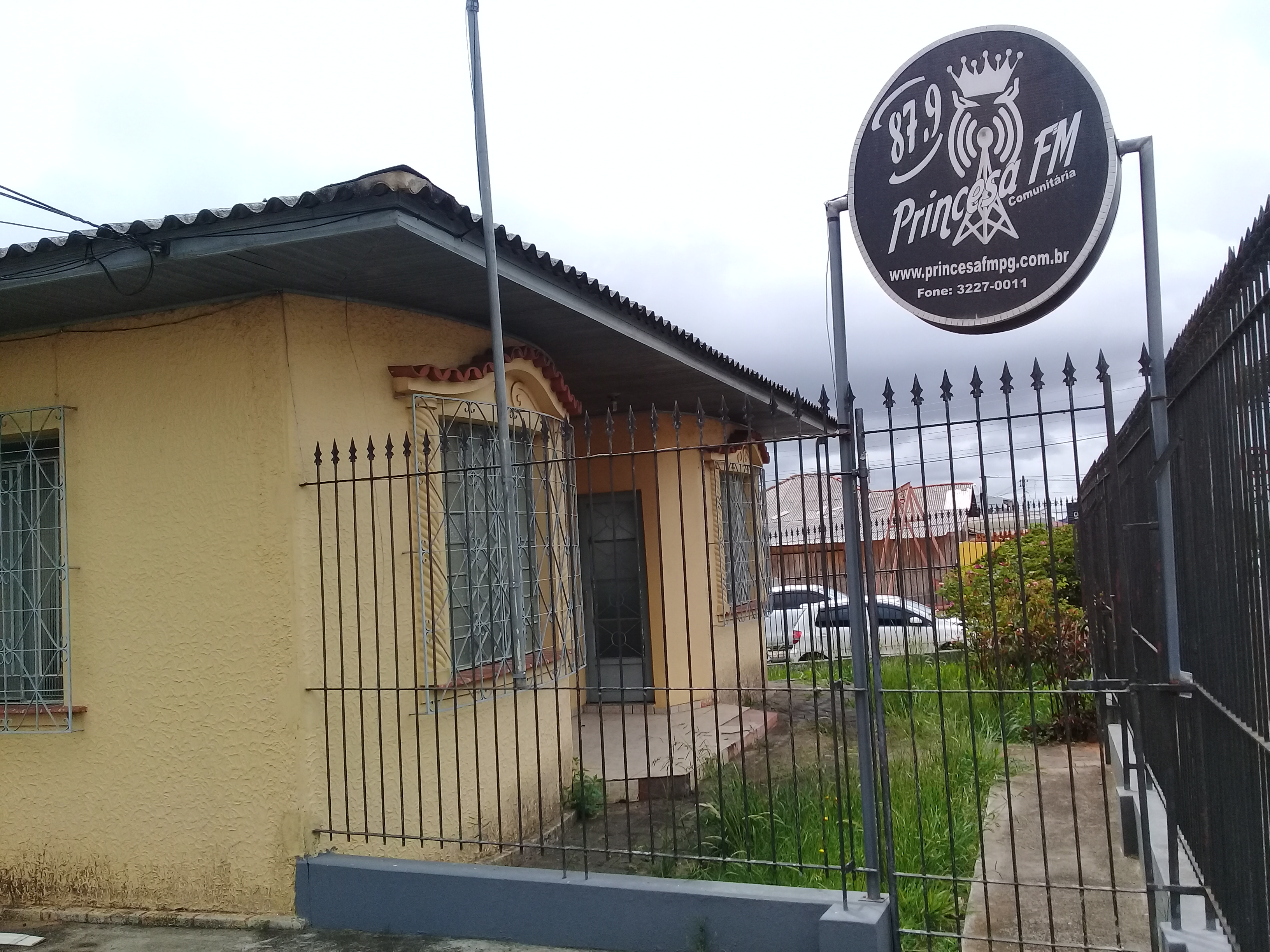 Front view of Princesa FM, community radio from Ponta Grossa, Paraná.